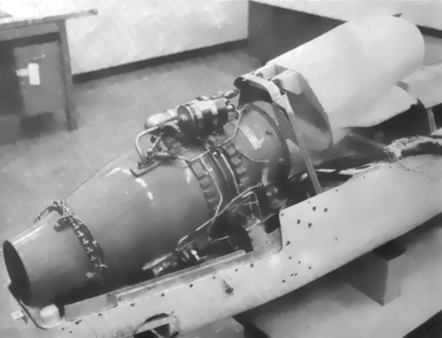 Williams turbofan engine mockup being installed in the ALCM vehicle airfame mockup